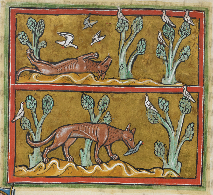 Illustration of a fox; detail of a miniature from the Rochester Bestiary, BL Royal 12 F xiii, f. 26v. Held and digitised by the British Library.